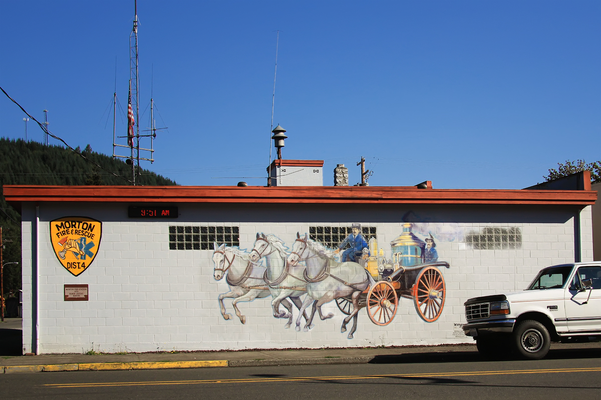 The picture of Fire Station in Morton, Wasington, USA.